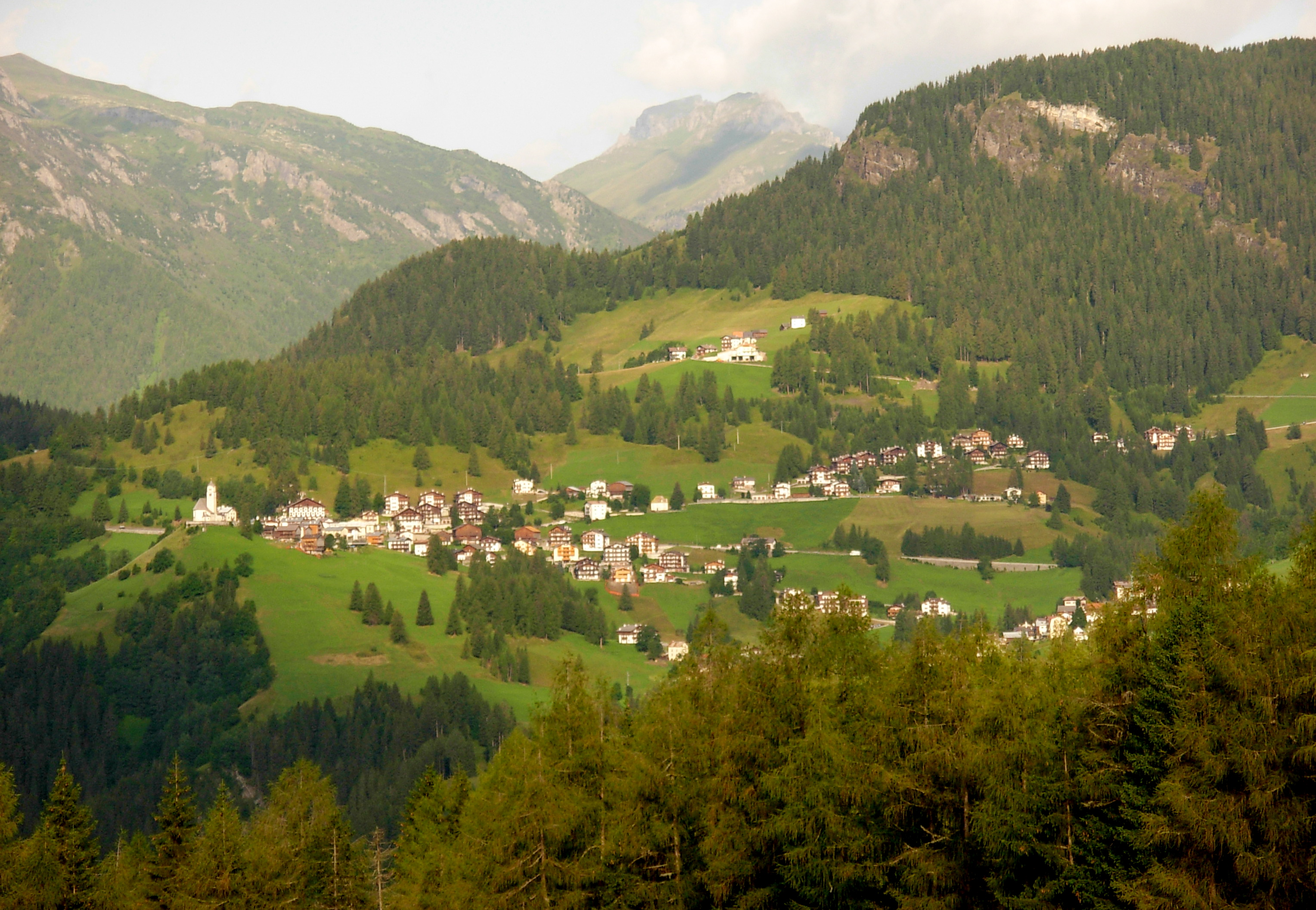 Colle Santa Lucia